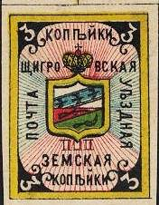 Shchigry zemstvo stamp (1882 — 1886)